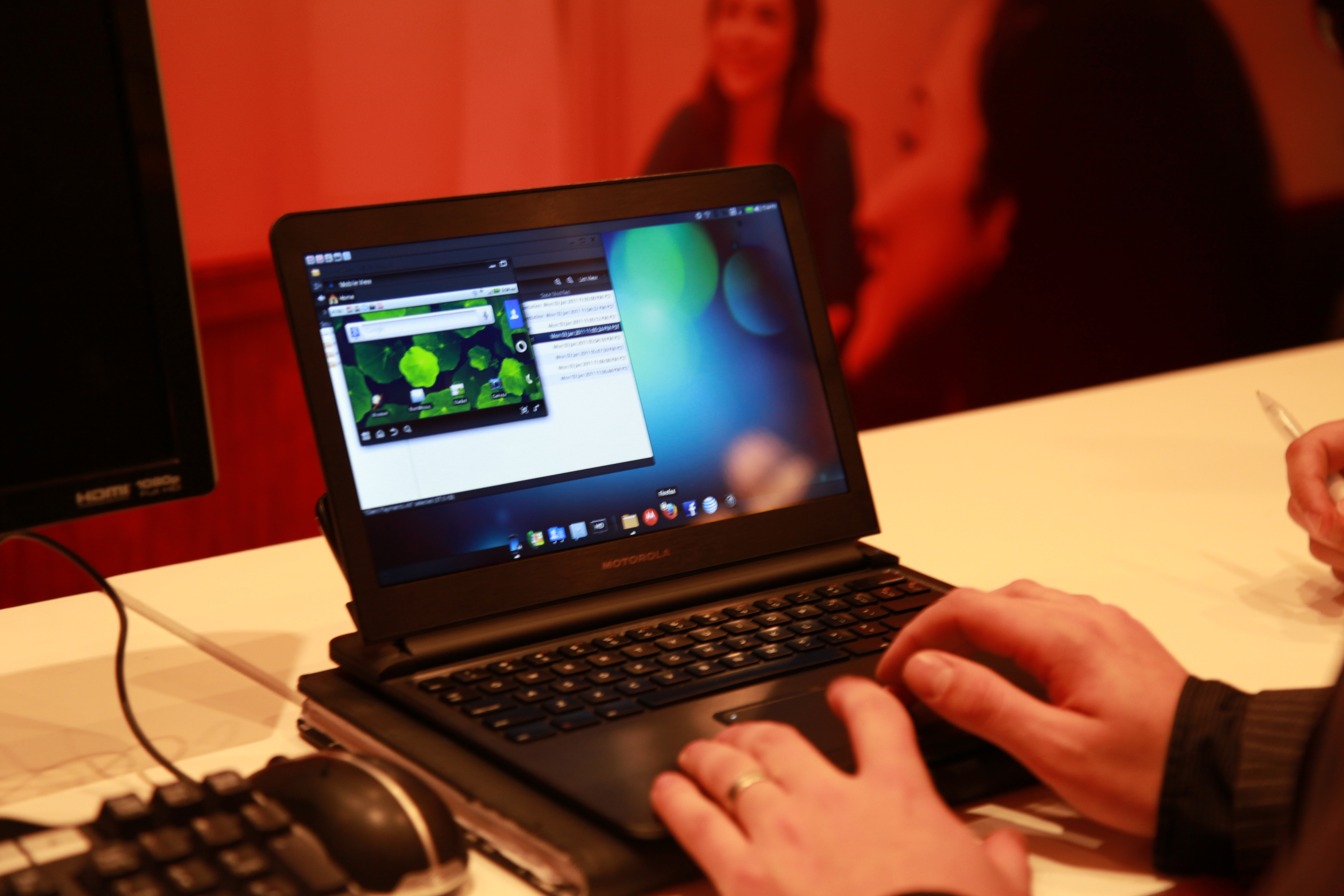 Picture from the Motorola Atrix 4G Webtop (Notebook) at the CES 2011.